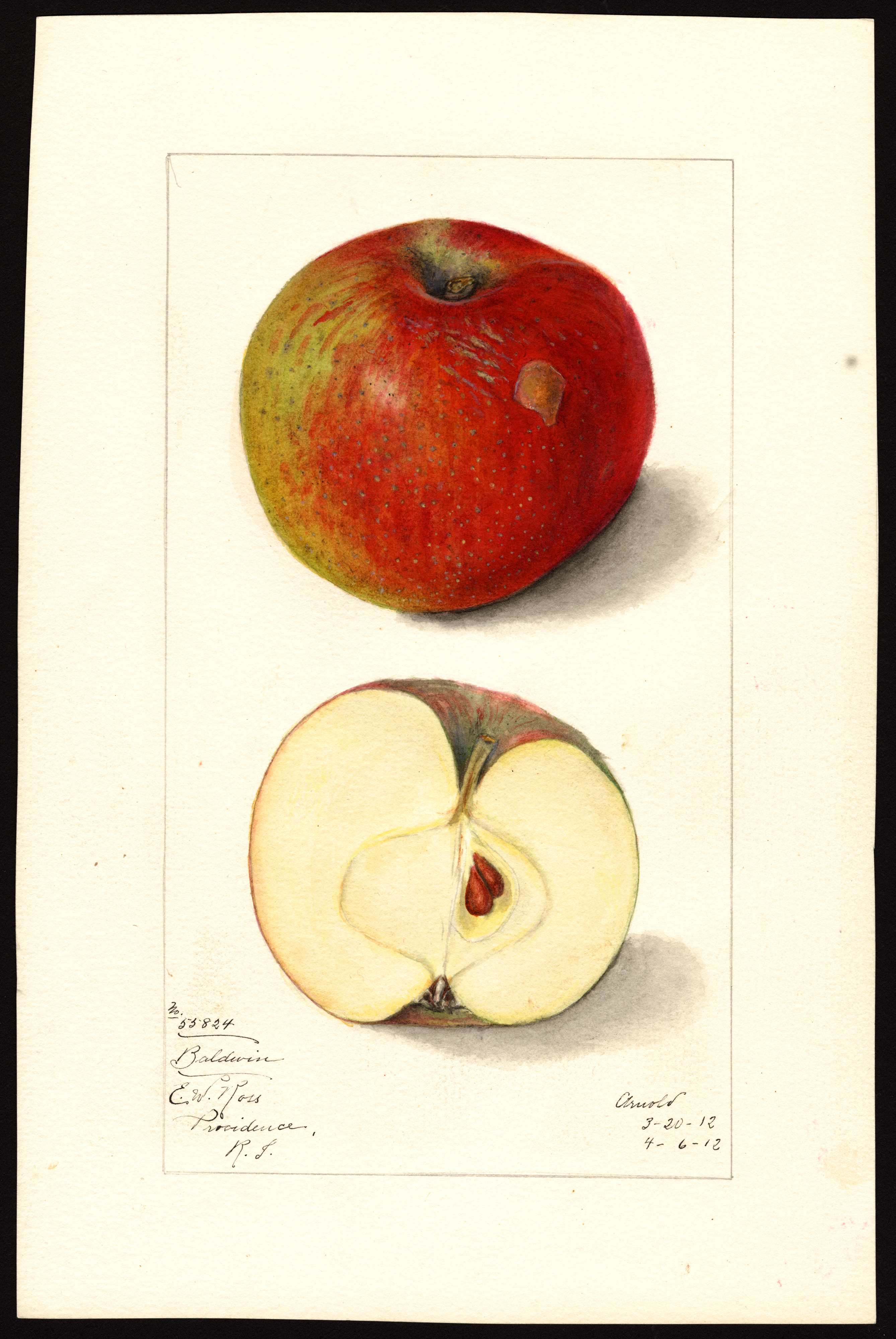 Image of the Baldwin variety of apples (scientific name: Malus domestica), with this specimen originating in Providence, Providence County, Rhode Island, United States. Source: U.S. Department of Agriculture Pomological Watercolor Collection. Rare and Special Collections, National Agricultural Library, Beltsville, MD 20705.